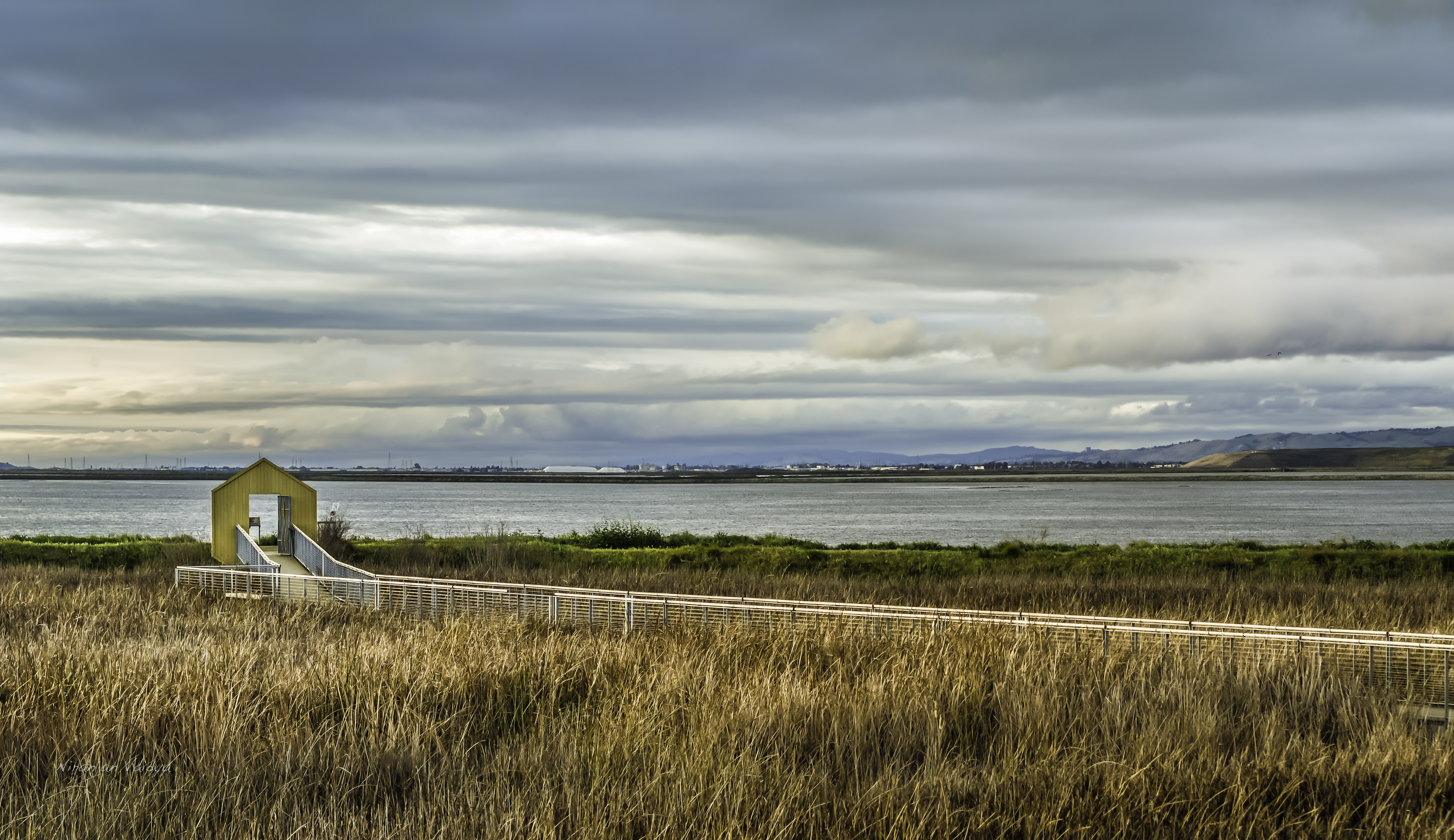 Alviso Historic District, Generally bounded by the Alviso Marina County Park, Guadalupe River/Alviso Slough, Moffat St. and El Dorado St. Alviso